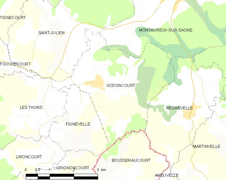 Map of French municipality Godoncourt